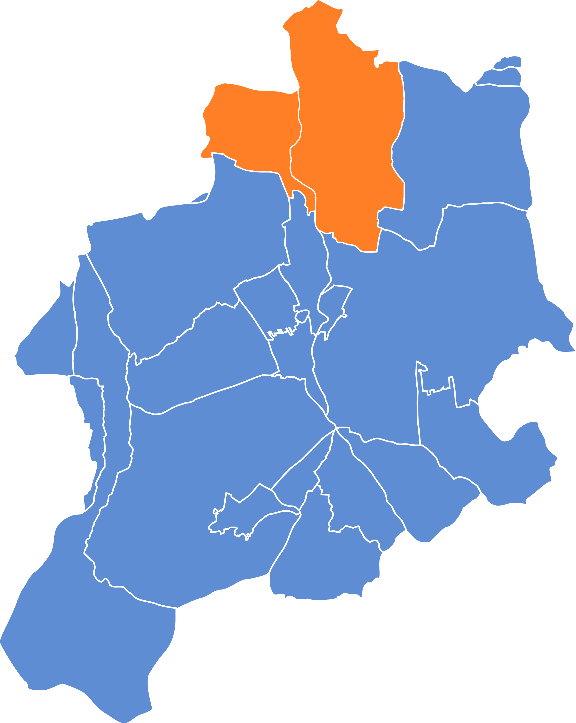 Komorowice (Śląskie and Krakowskie) on the map of city.